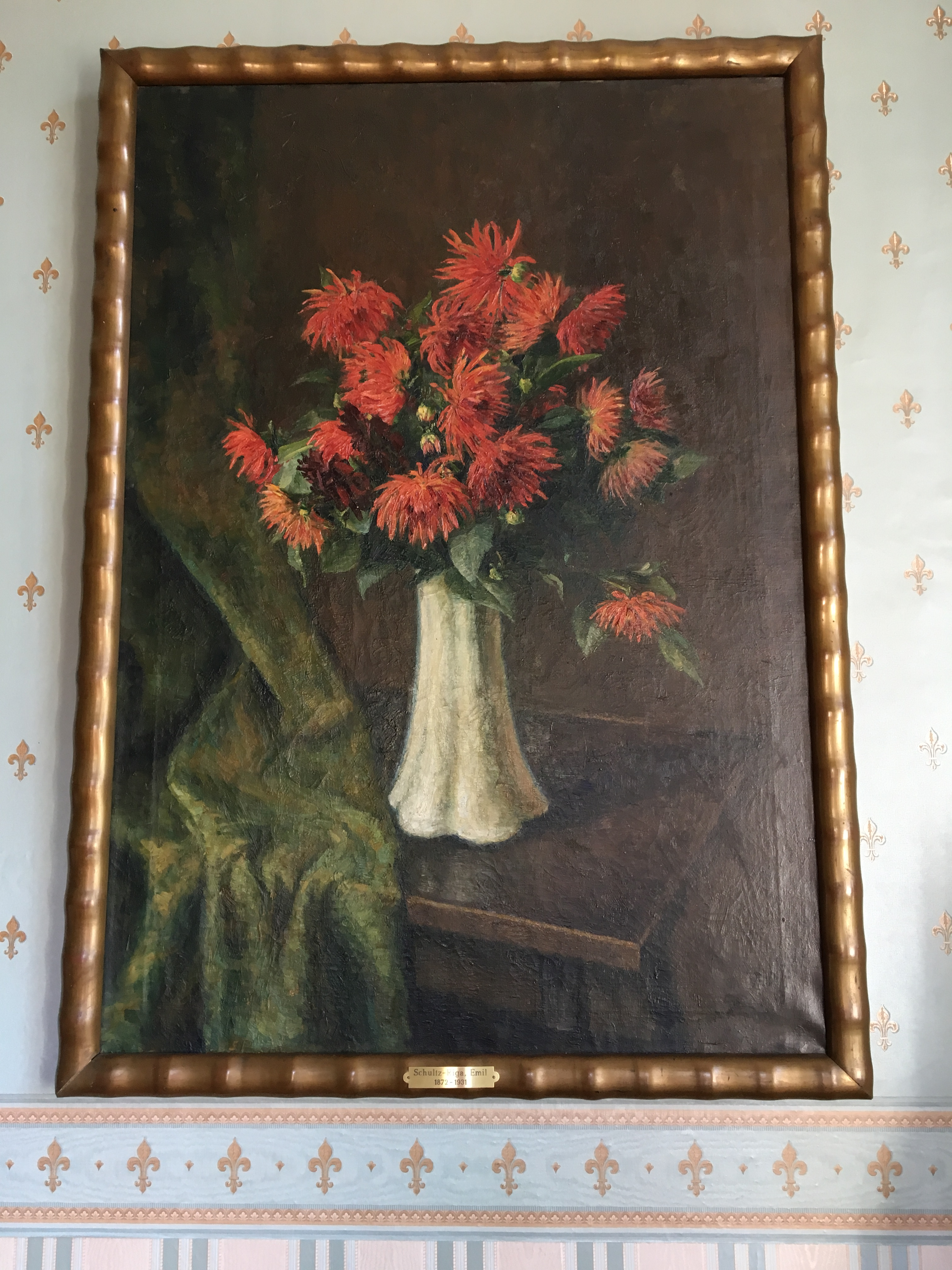 Dahlias in the German Garden at the time of historicism "The Queen of Autumn".